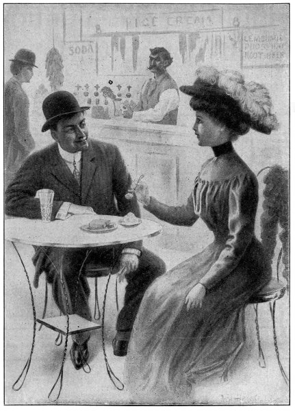 "Ice cream parlors of the city and fruit stores combined, largely run by foreigners, are the places where scores of girls have taken their first step downward. Does her mother know the character of the place and the man she is with."